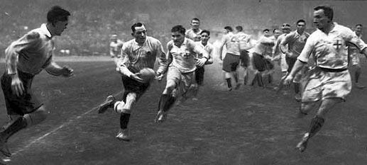 NSW Waratahs v. England national team, rugby best at Twickenham.